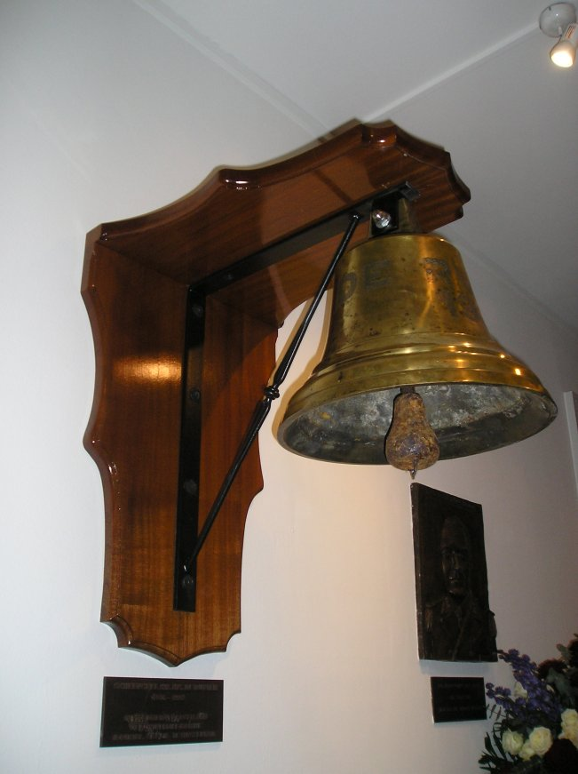 Bell from the HMS De Ruyter, now in the Kloosterkerk in The Hague